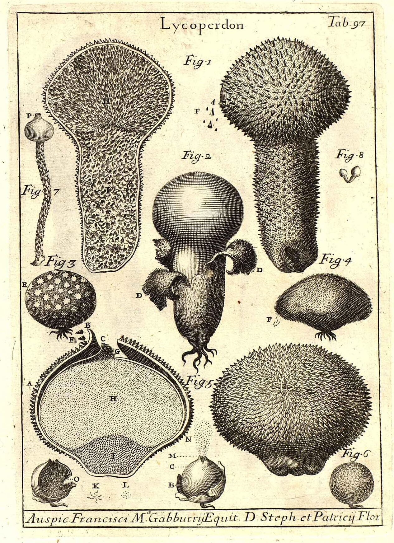 Pier Antonio Micheli, Nova plantarum genera, tab. 97, 1729.